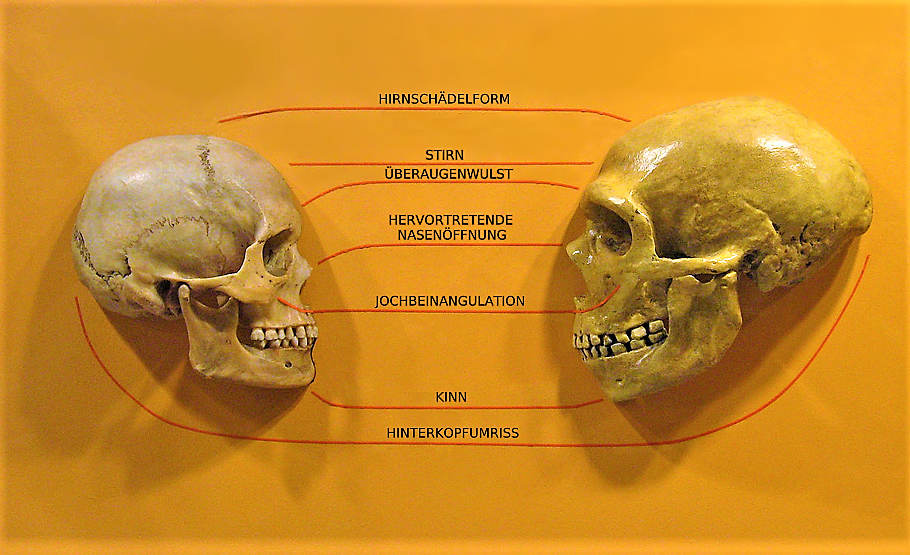 Comparison of Modern Human and Neanderthal skulls from the Cleveland Museum of Natural History with German captions. Descpription (from up to down): Braincase shape, Forehead, Browridge, Nasal bone projection, Cheek bone angulation, Chin, Occipital contour.